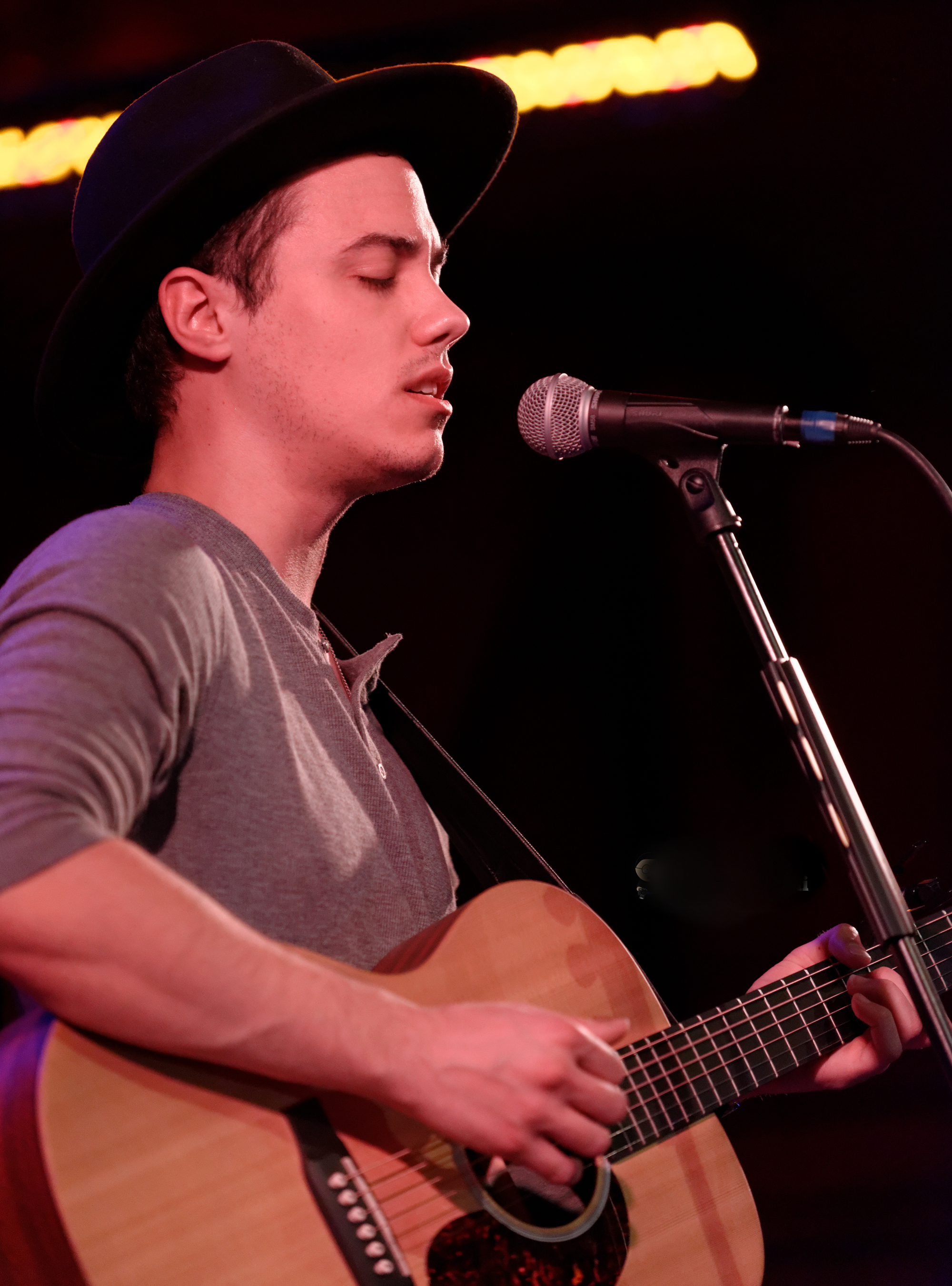 Leroy Sanchez in concert 2015